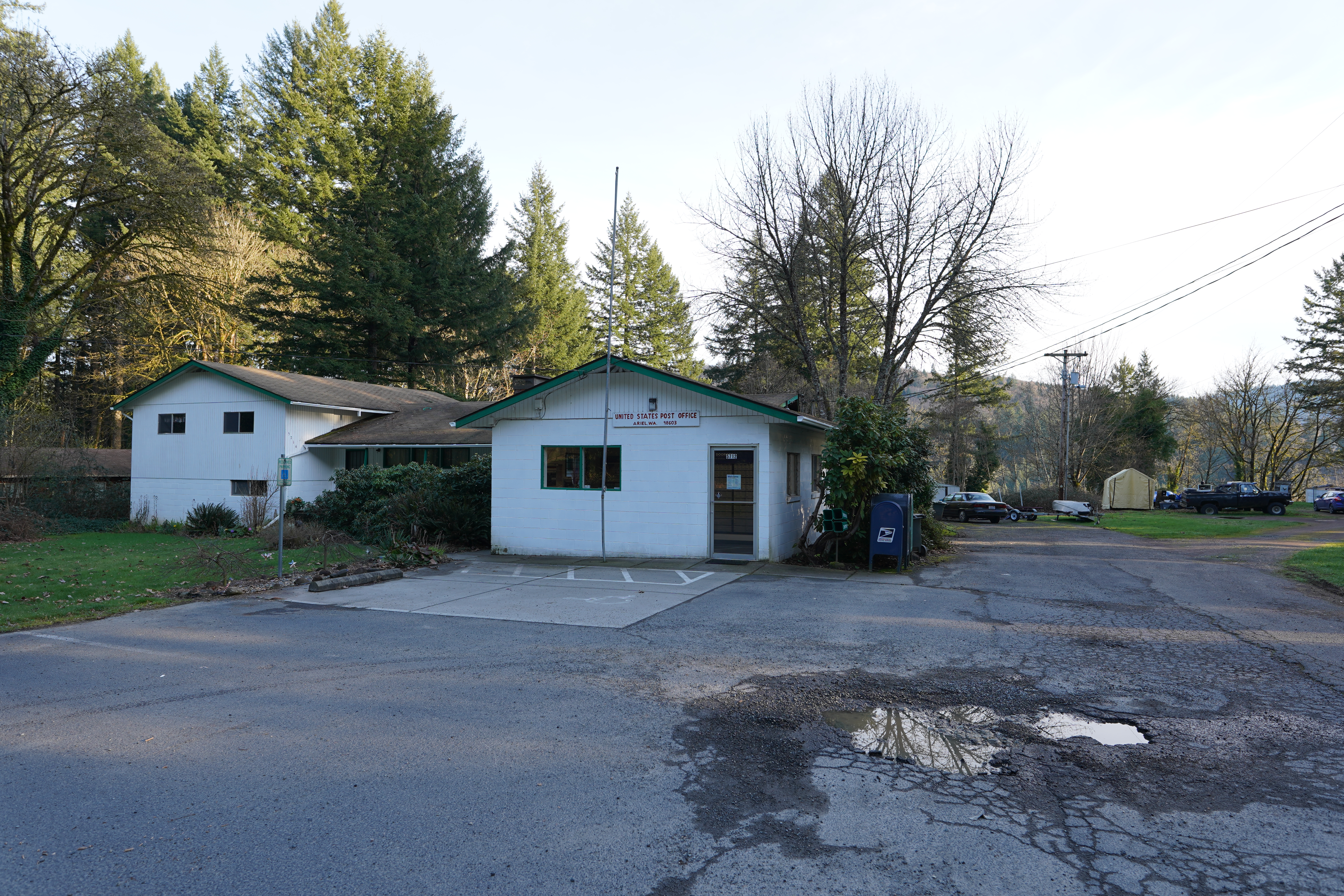 Shown is the United States Post Office for Ariel, Washington. Photograph taken on 2020-03-09T00:59:48Z.